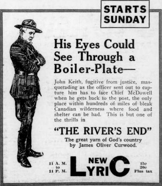 Newspaper advetisement for the American drama film The River's End (1920), on page 7 of the March 6, 1920 Duluth Herald.